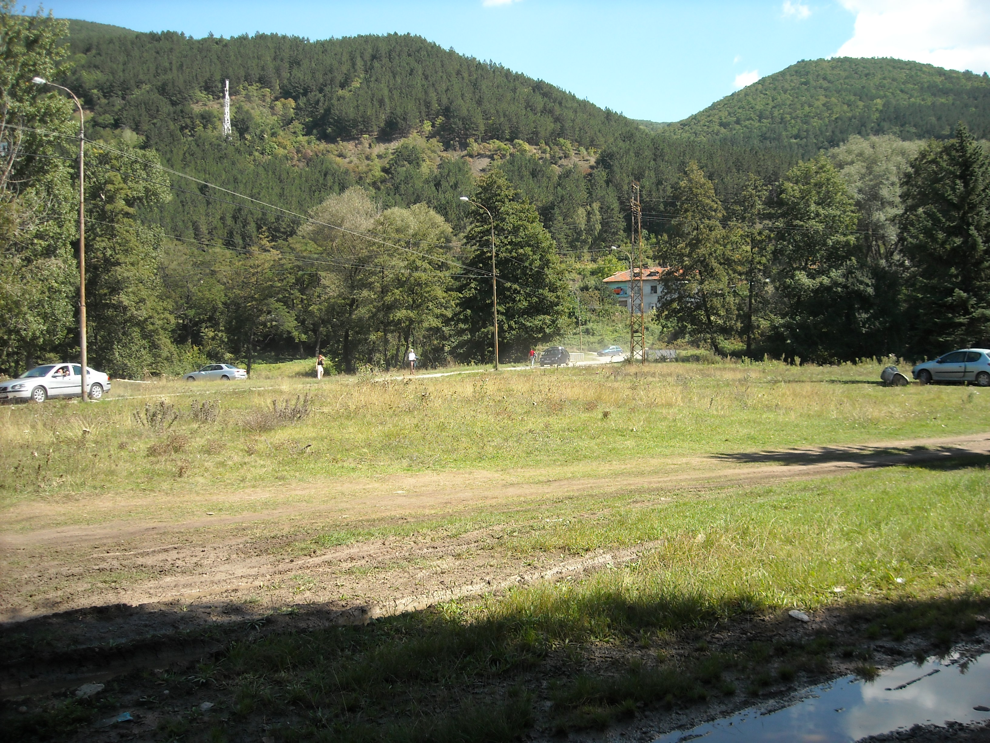 Glavishevo locality, near Pancharevo, Sofia